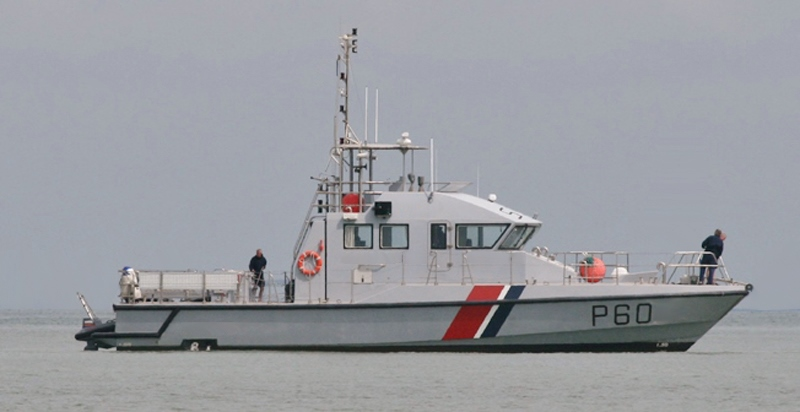 Gedarmerie maritime Patrol boat